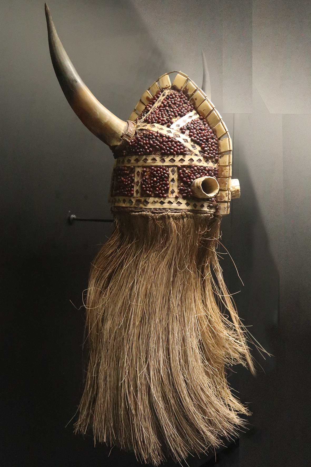 Diola culture. Senegal, Casamance. Mask "ejumba". Bovine horns, vegetable coating, rônier fibers, seeds of 'Abrus precatorius'. Muséum de Toulouse. France. MHNT ETH.AC.AF.52